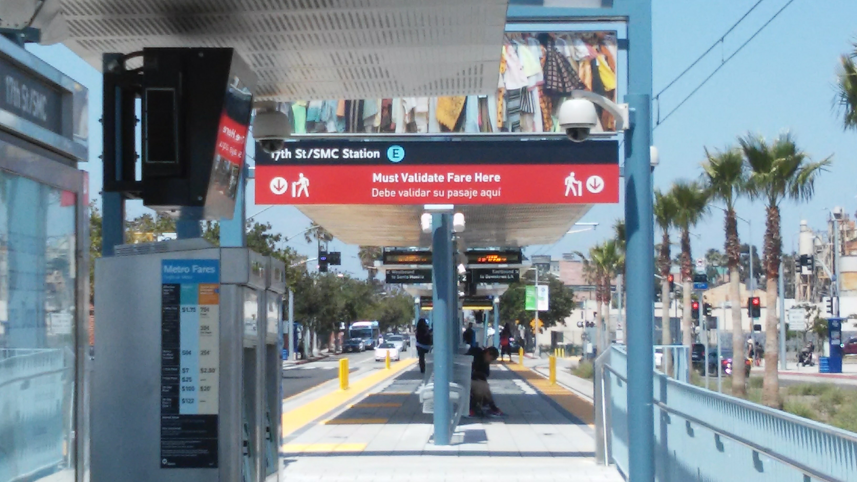 This is a photo I took back in 2016 of the entrance to the 17th Street/SMC Station